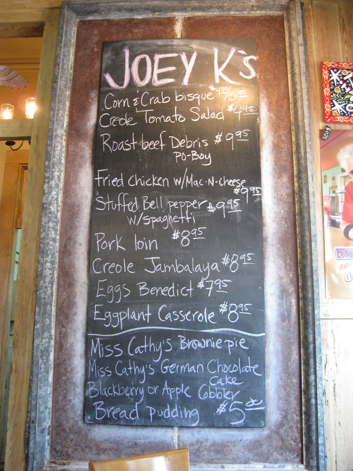 Joey K's Restaurant, Magazine Street, New Orleans. Chalkboard with listing of the day's specials.